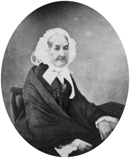 Photograph Mrs. Elizabeth (Fisher) Torrance Sr., copied 1862 William Notman (1826-1891) Copied in 1862, 19th century Silver salts on paper mounted on paper - Albumen process 8.5 x 5.6 cm Purchase from Associated Screen News Ltd. I-4567.0.1 © McCord Museum